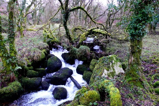 Walla Brook Dartmoor The Walla Brook runs under the road to Babeny just east of the hamlet. This is the view north upstream from close to the road.